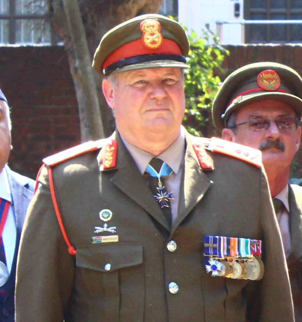 Maj Gen Roy Andersen at the Gunner's Memorial Ceremony in Durban, 2014